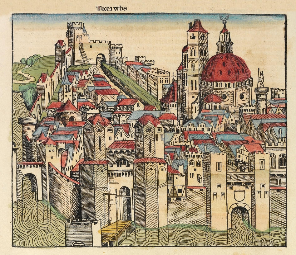 This is a part of a scan of an historical document: Title: Schedelsche Weltchronik or Nuremberg Chronicle Iznik in Turkey is the modern name of the old town Nicea